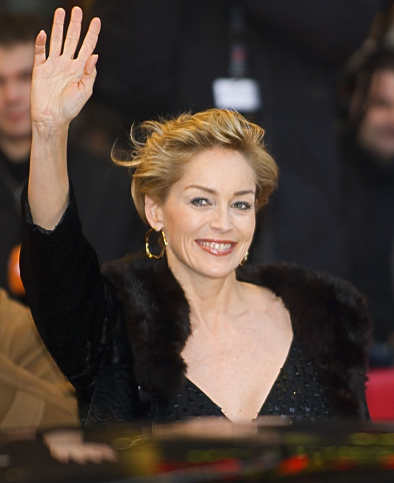 Sharon Stone at the Premiere of "When a man falls in the forest" at the Berlinale Palast, Marlene-Dietrich-Platz, Berlin